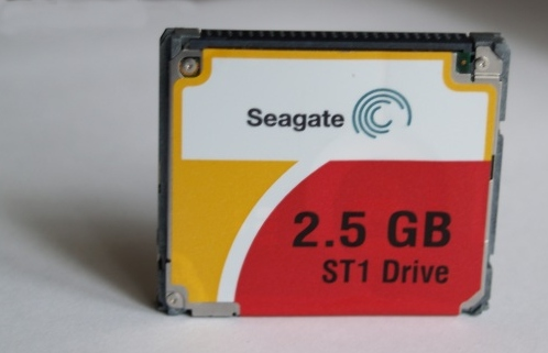 Seagate ST1 2.5GB hard disk